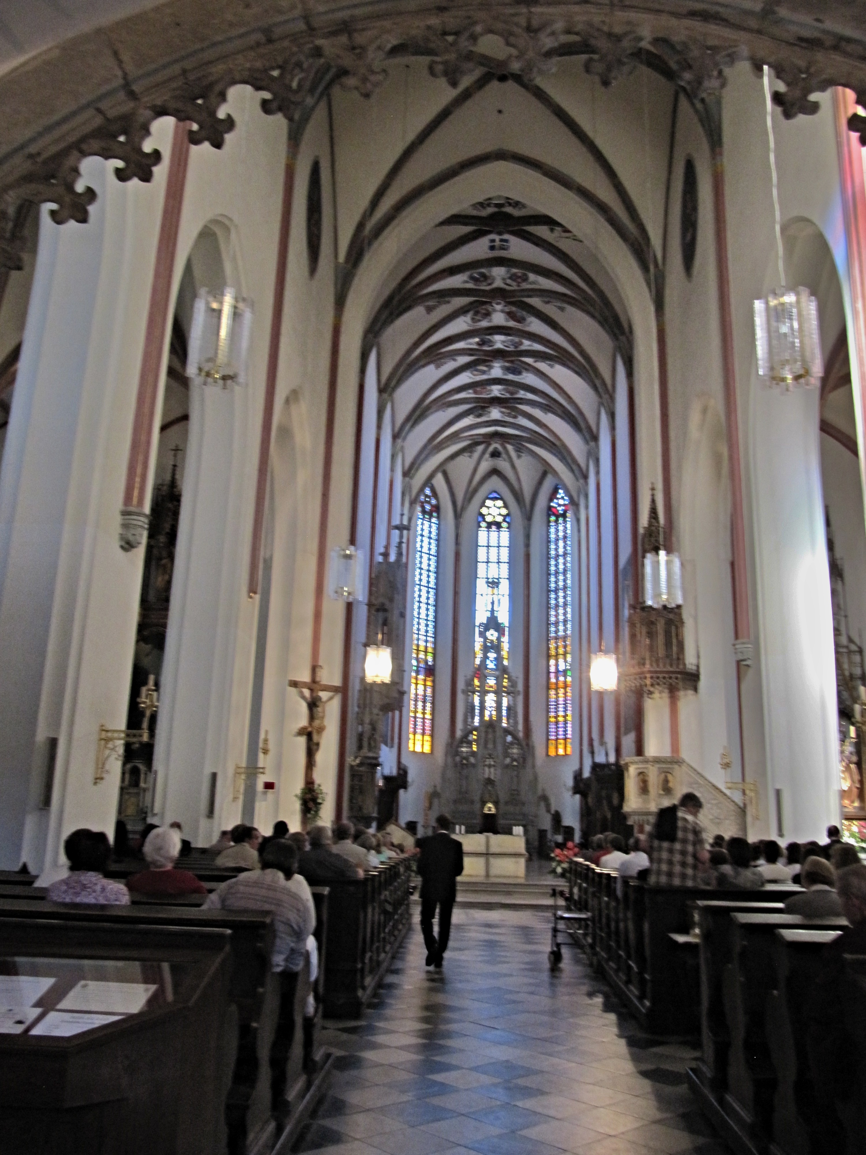 Hradec Králové, Czech Republic. Cathedral, interior.